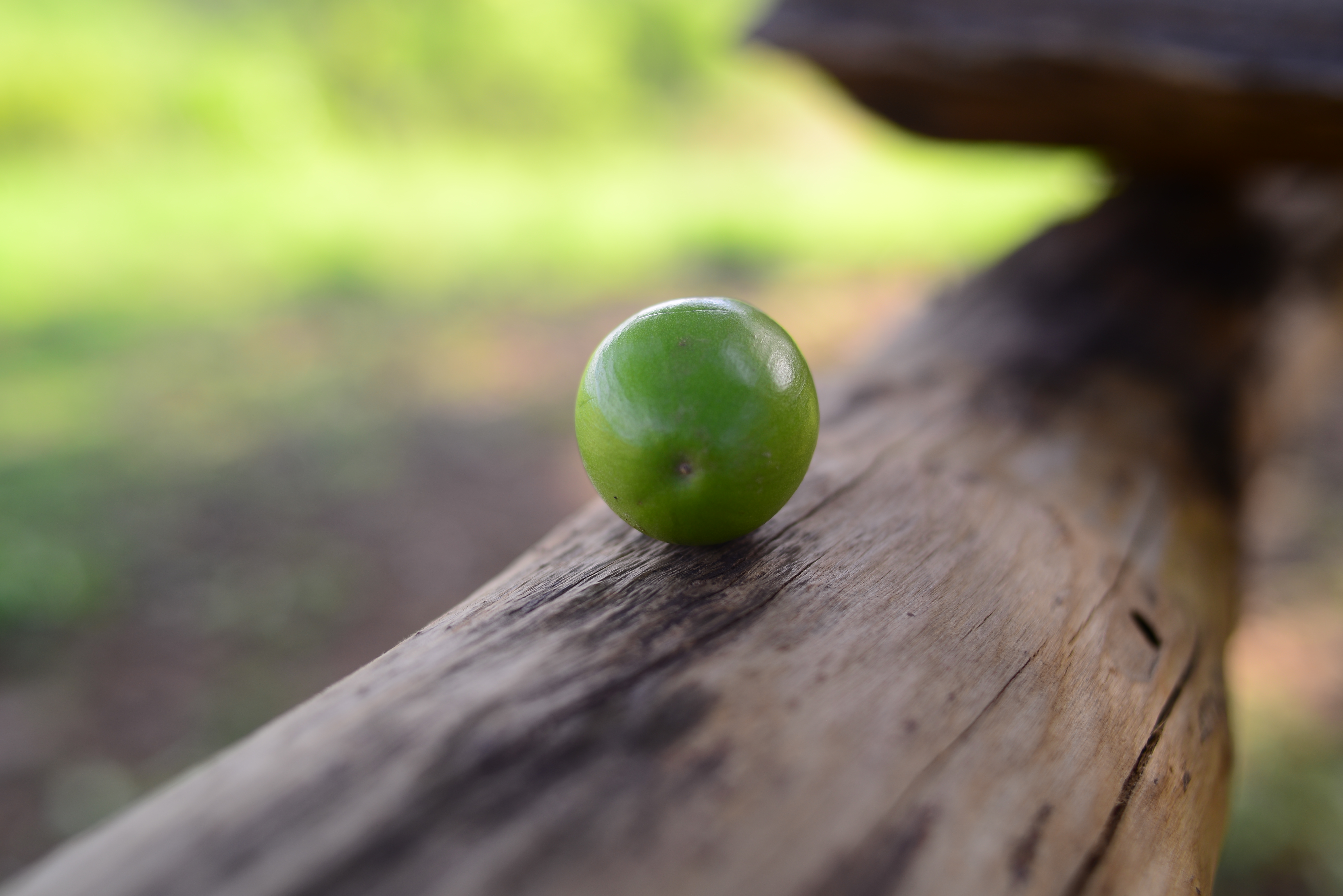 This shear butter fruit is from larabanga in the Savana Region of Ghana. It has a sweet smell and save multi purpose, it can be eaten. It does well in the northern part of Ghana and in some some west Africa countries.